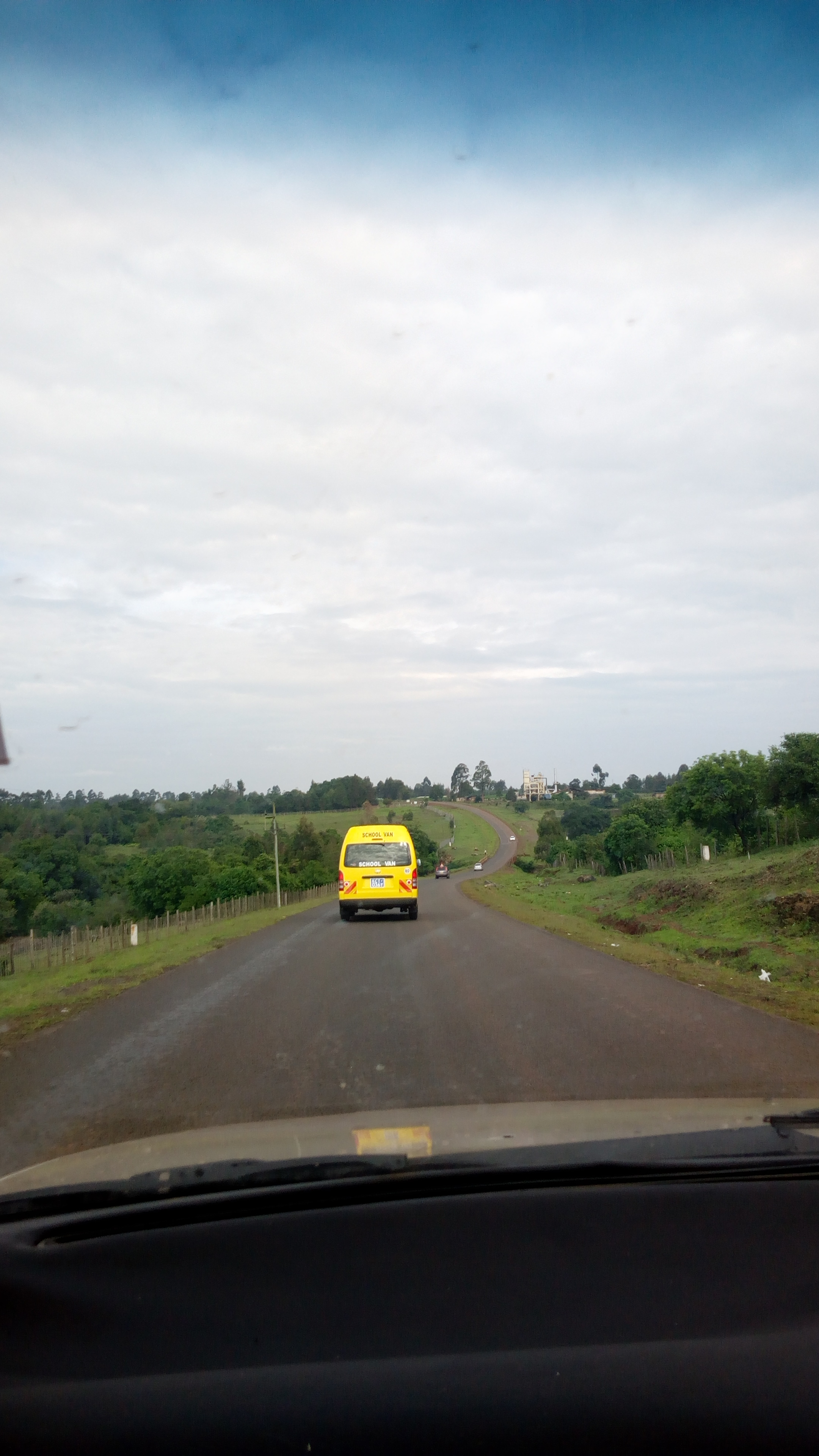 This is an image with the theme "Africa on the Move or Transport" from: Kenya